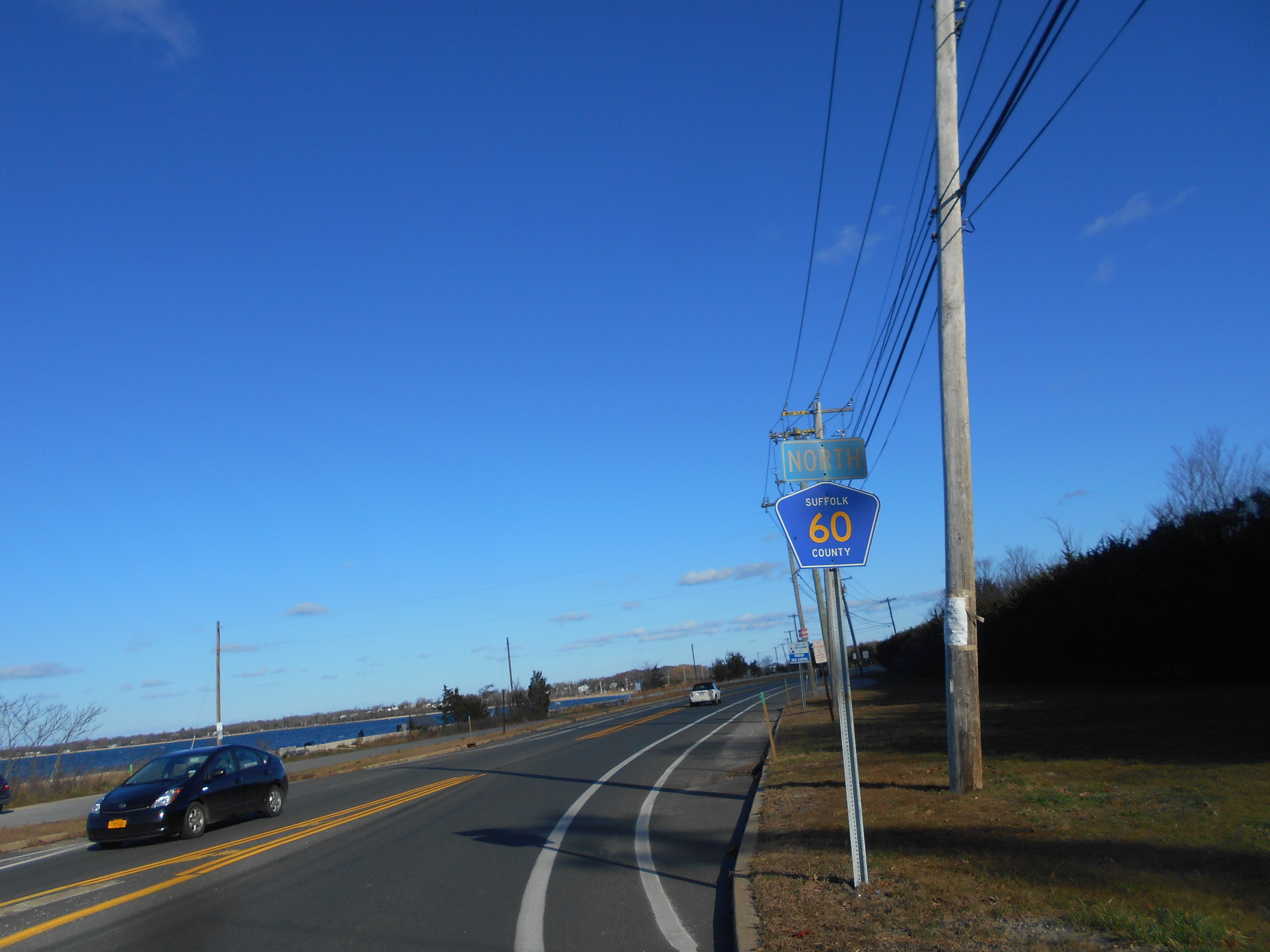 County Route 60 in Noyack, Suffolk County, New York.